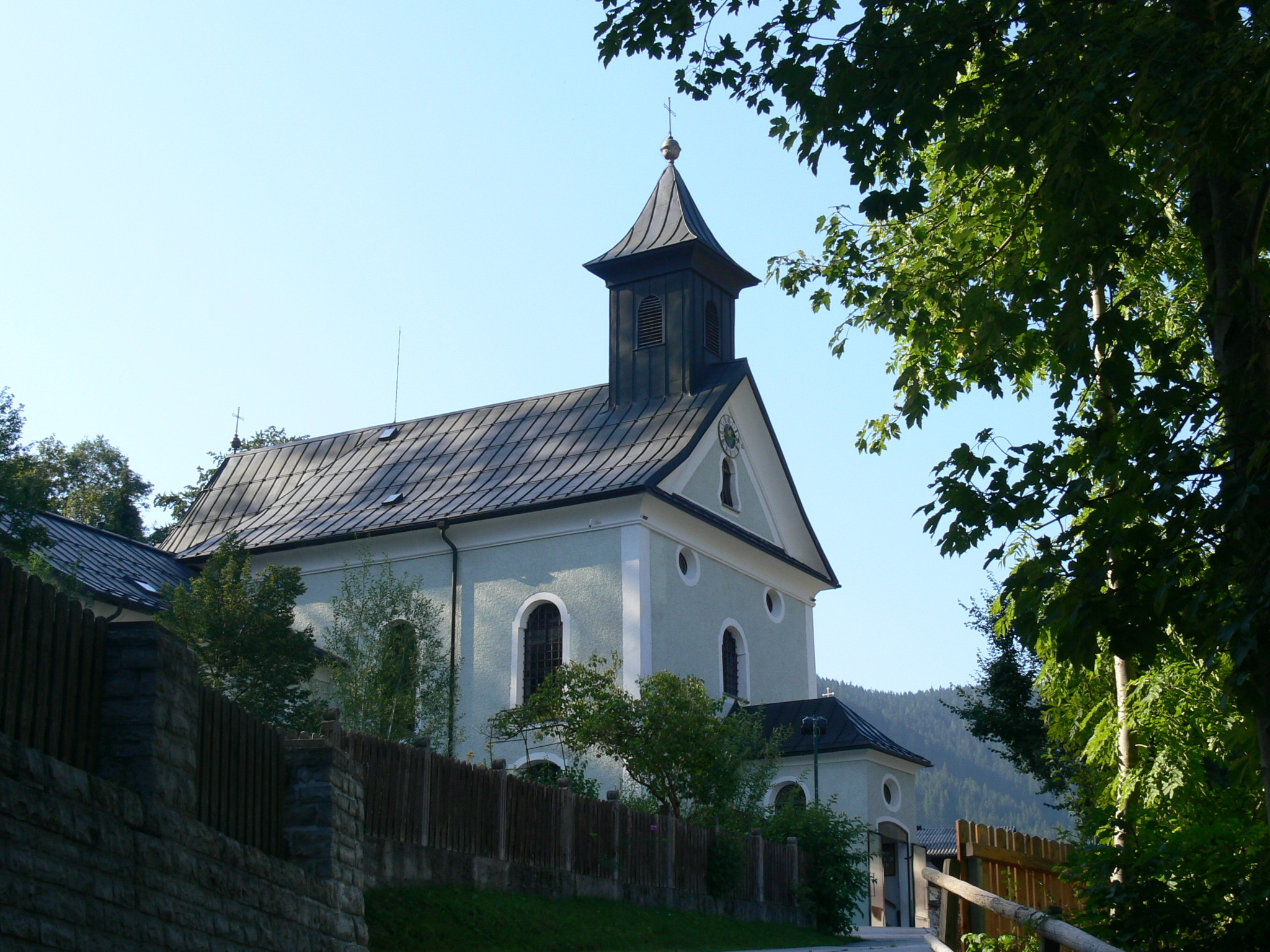 Annaberg-Lungötz ( Salzburg/Austria ). Saint Anne parish church ( 1752 ).